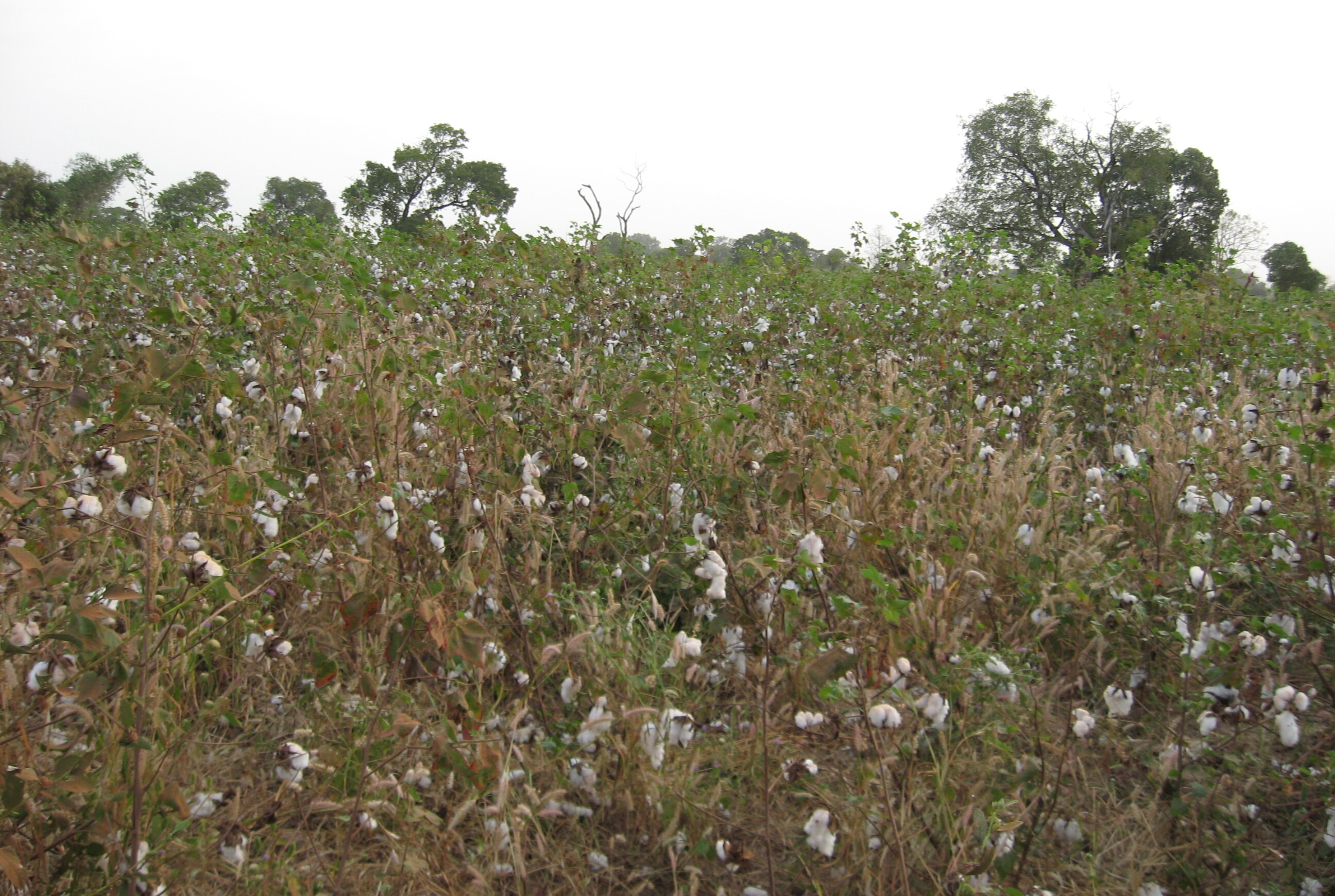 Cotton fields near Kounkane (Senegal)